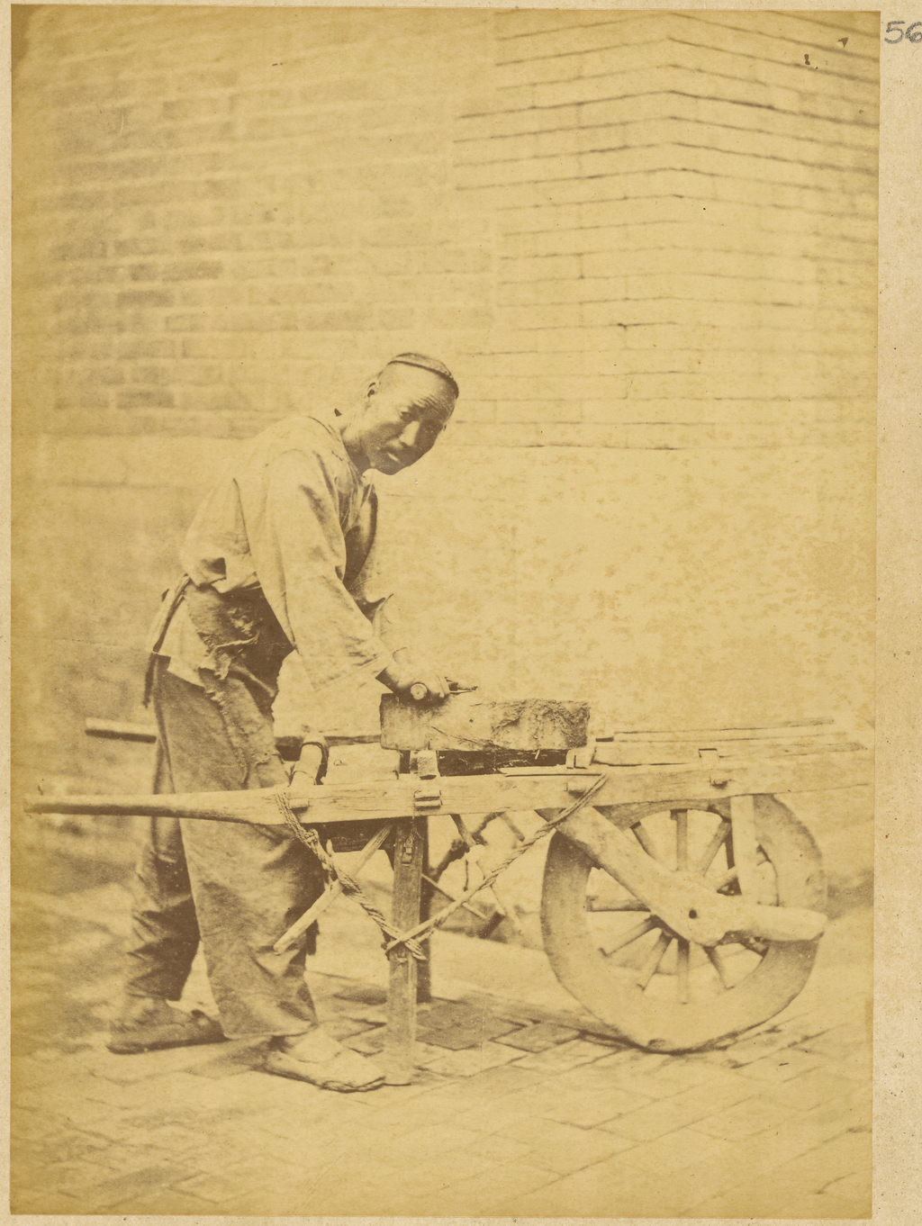 In 1874-75, the Russian government sent a research and trading mission to China to seek out new overland routes to the Chinese market, report on prospects for increased commerce and locations for consulates and factories, and gather information about the Dungan Revolt then raging in parts of western China. Led by Lieutenant Colonel Iulian A. Sosnovskii of the army General Staff, the nine-man mission included a topographer, Captain Matusovskii; a scientific officer, Dr. Pavel Iakovlevich Piasetskii; Chinese and Russian interpreters; three non-commissioned Cossack soldiers; and the mission photographer, Adolf Erazmovich Boiarskii. The mission proceeded from Saint Petersburg to Shanghai via Ulan Bator (Mongolia), Beijing, and Tianjin, and then followed a route along the Yangtze River, along the Great Silk Road through the Hami oasis, to Lake Zaysan, back to Russia. Boiarskii took some 200 photographs, which constitute a unique resource for the study of China in this period. Most of the photographs are included in this album, which later became part of the Thereza Christina Maria Collection assembled by Emperor Pedro II of Brazil and given by him to the National Library of Brazil. Chinese; Knife grinders (Persons); Memory of the World